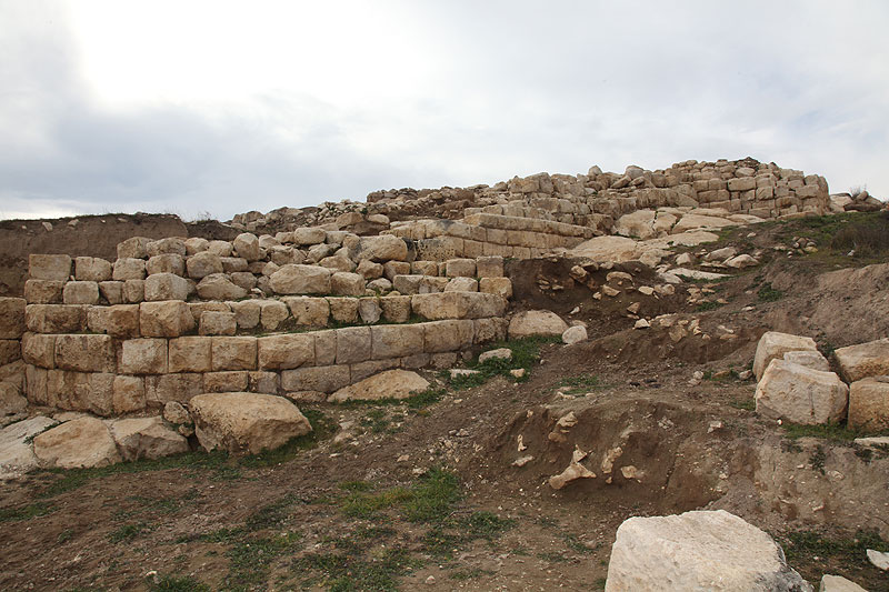 Tigranakert wall ruins